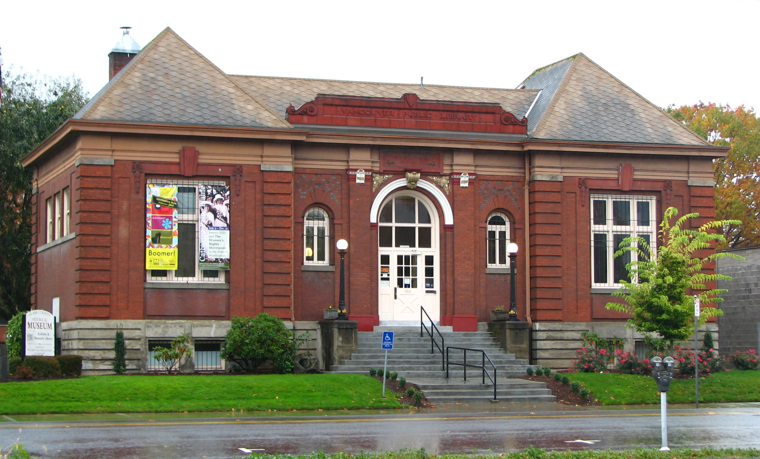 The Clark County Historical Museum building, located at 1511 Main Street in Vancouver, Washington, United States, is listed on the US National Register of Historic Places (NRHP) under its historic name "Vancouver Public Library".